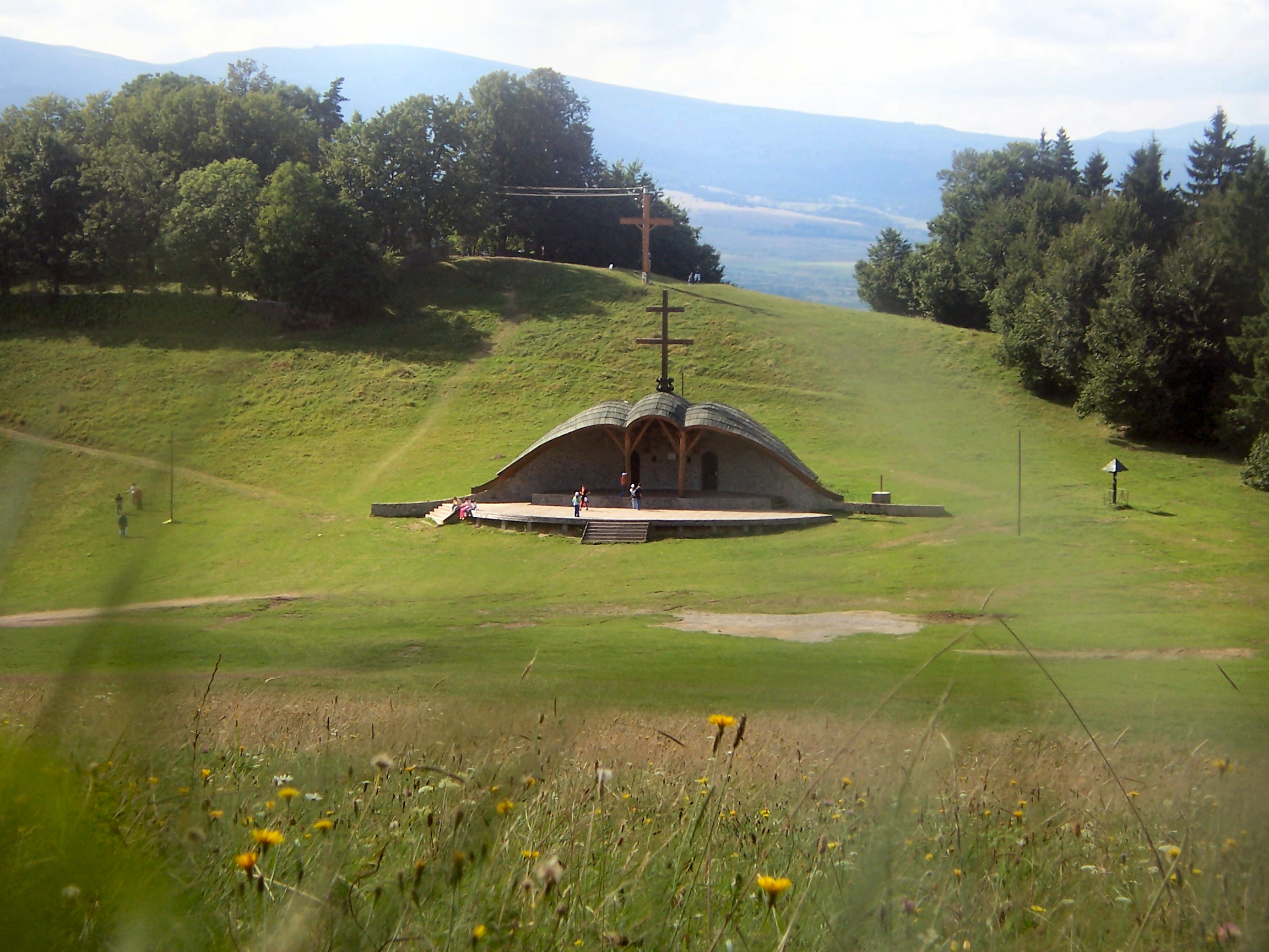 Three Hills Altar